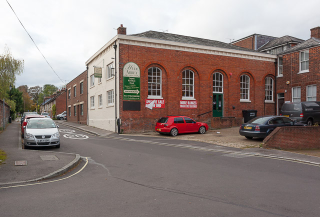 Hyde Abbey Carpet shop, Hyde Close, Winchester